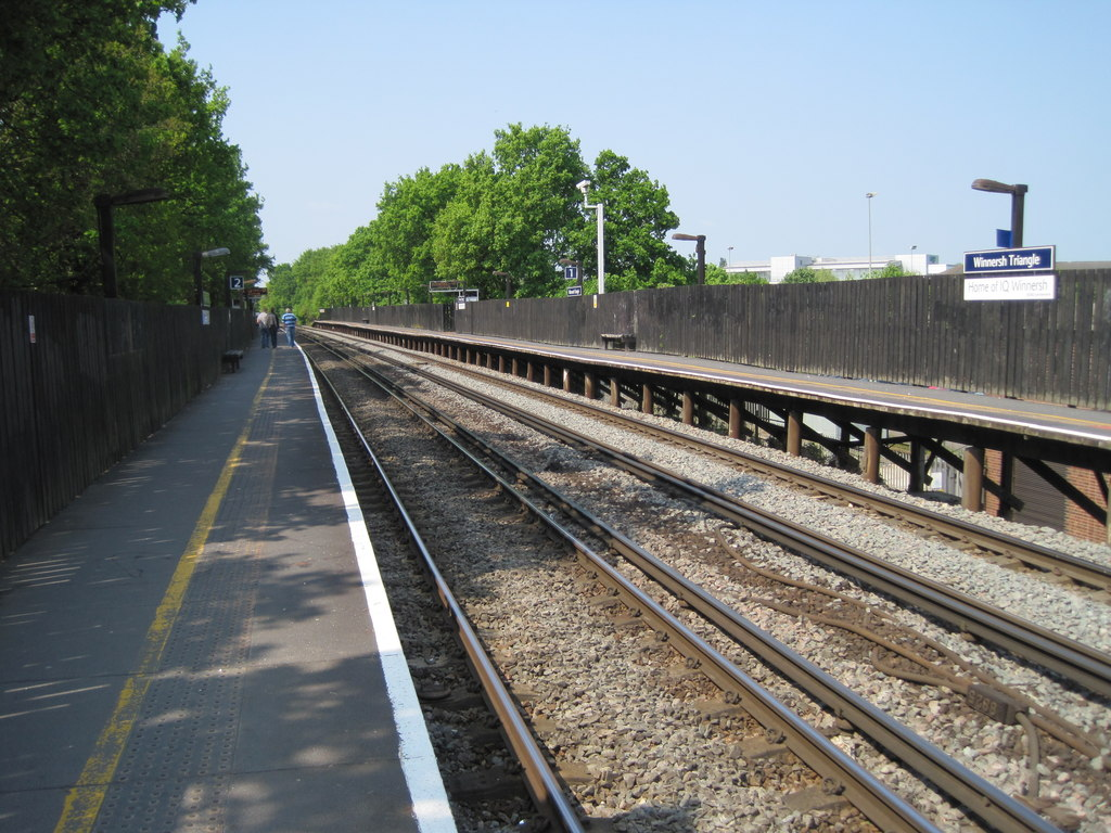 Winnersh Triangle railway station, Berkshire